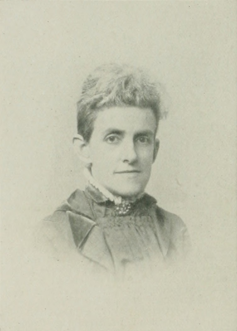 A Woman of the Century